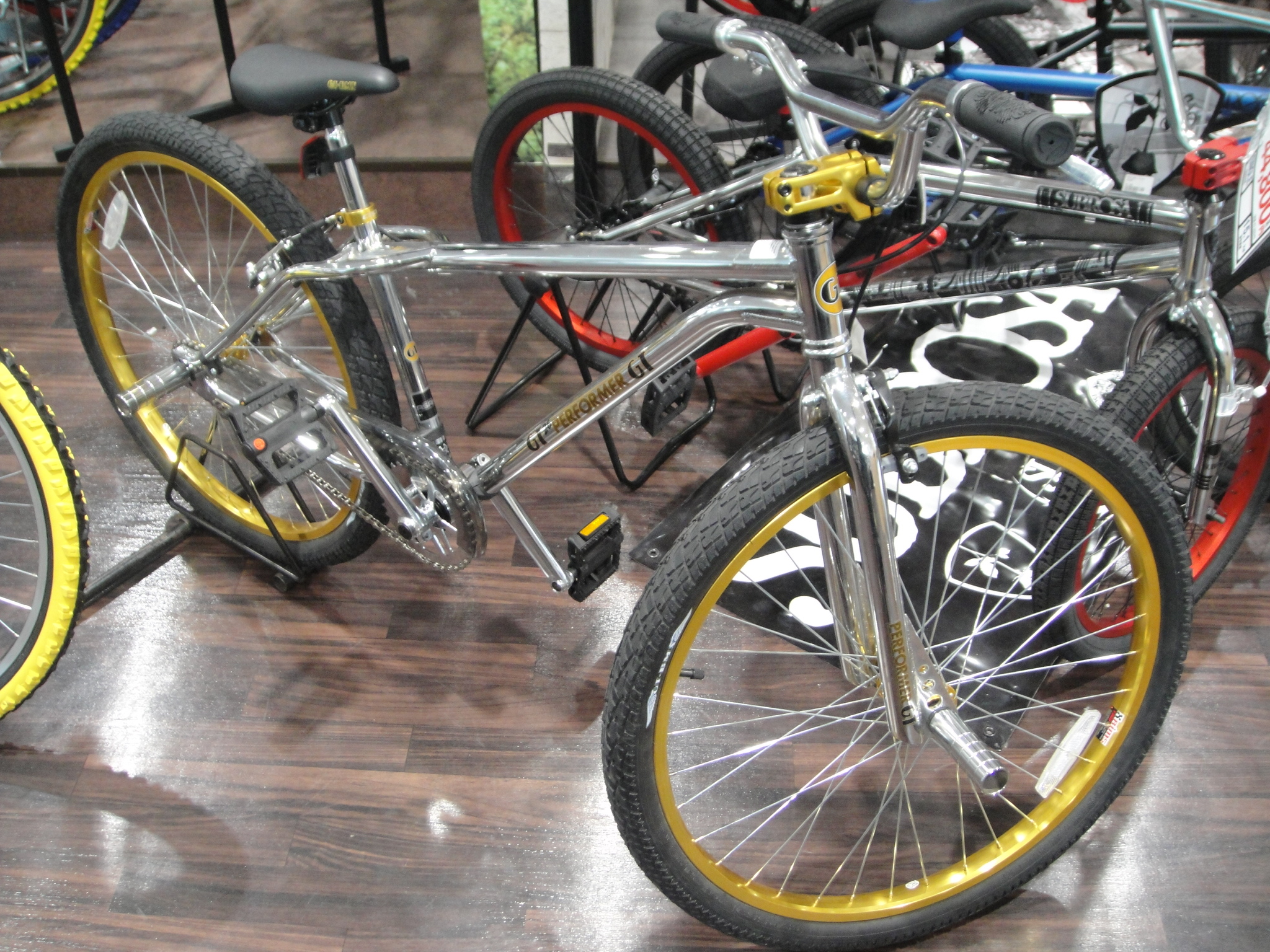 GT Bycicles 26 inch BMX